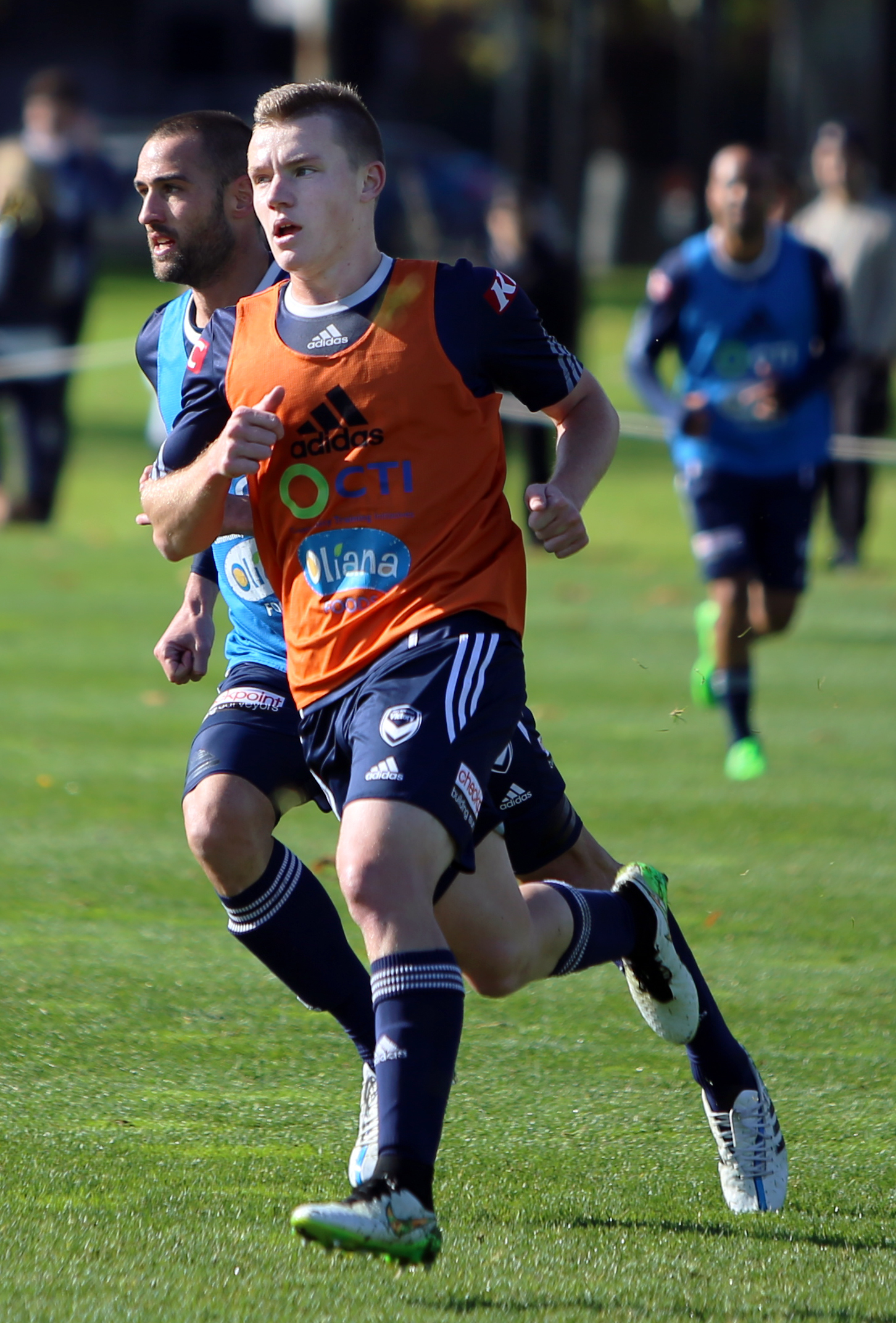 Scott Galloway training for Melbourne Victory, May 2015